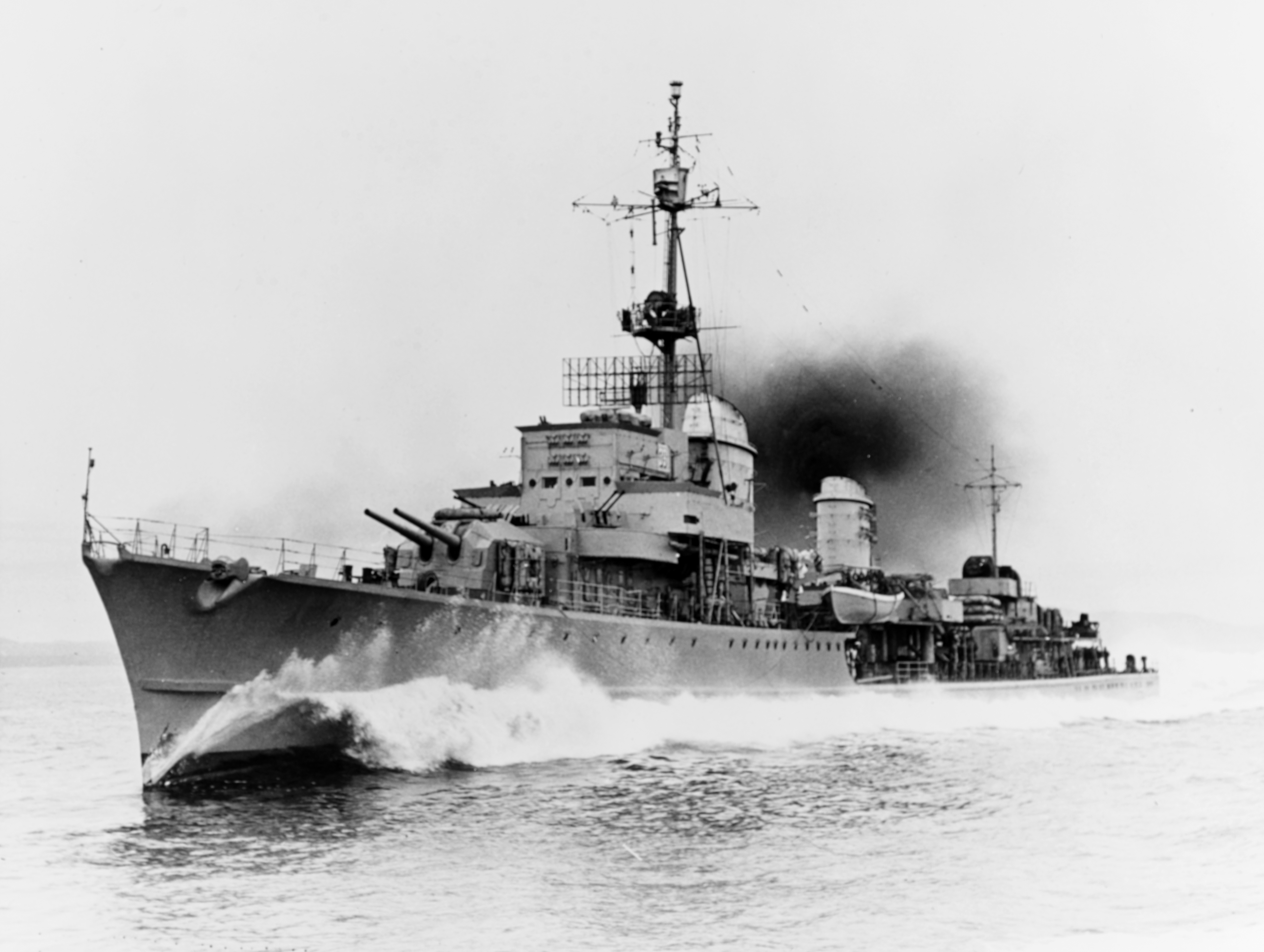 The former German destroyer Z39 underway off Boston, Massachusetts (USA), on 22 August 1945. The U.S. Navy designated the destoyer DD-939.